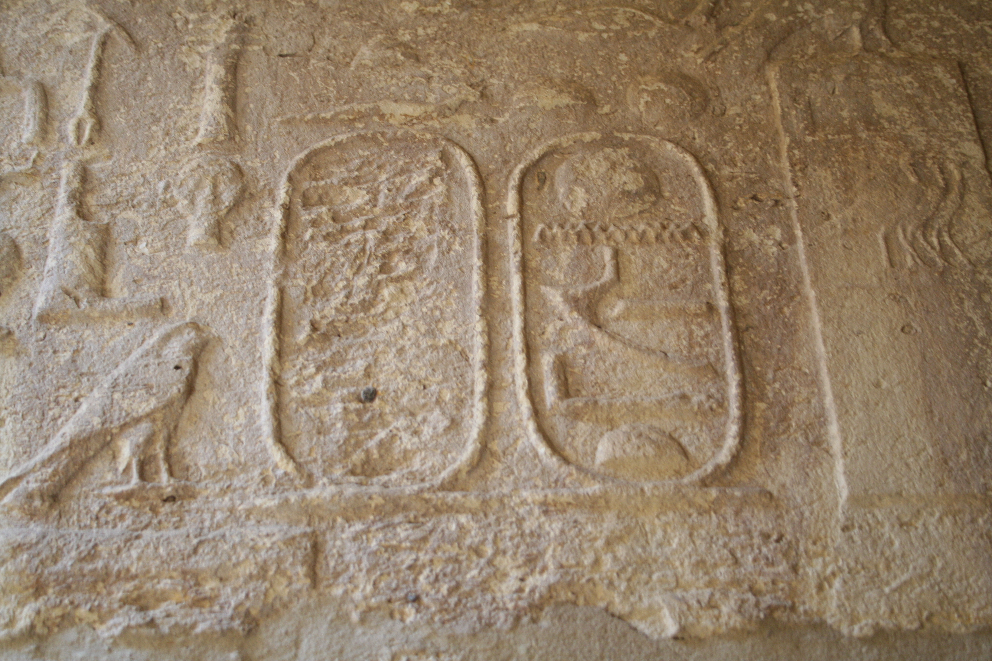 Cartouche of Amenemhat III in the Middle Kingdom temple at Medinet Madi/Narmuthis